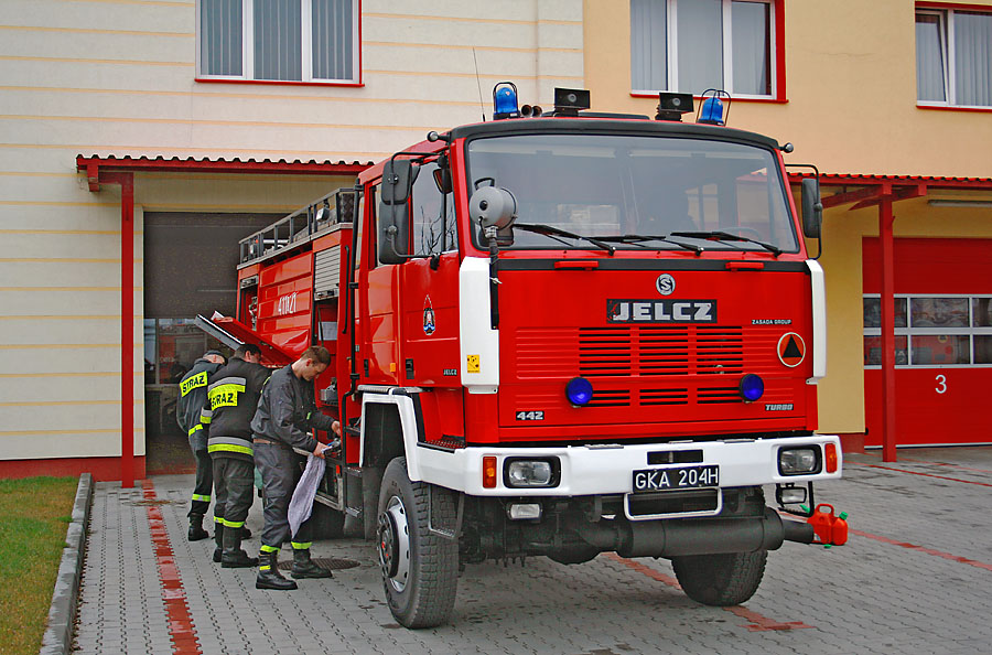 Polish fire engine Jelcz 014R (chassis Jelcz P442) GCBA 5/24 of Chojnice Fire Brigade.